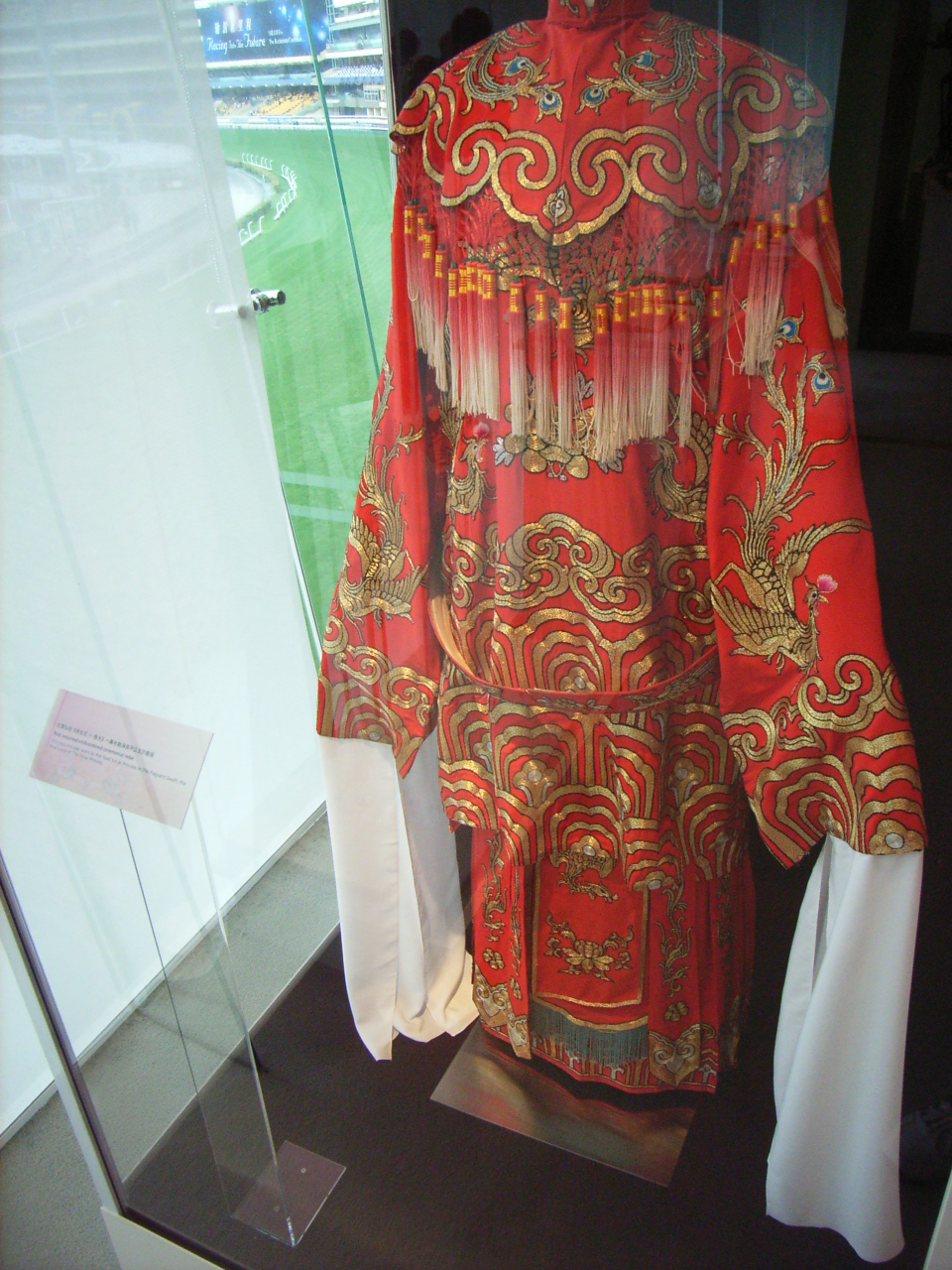 任白筋 粵劇戲寶 1957年首演 帝女花: 樹盟 Oath under the twins tree 辭殿 Depature 香劫 Princess' sufferings 庵遇 Reunion at the nunnery 上表 Negotating with the Qing Emperor 香夭 The fragrant death 殉國